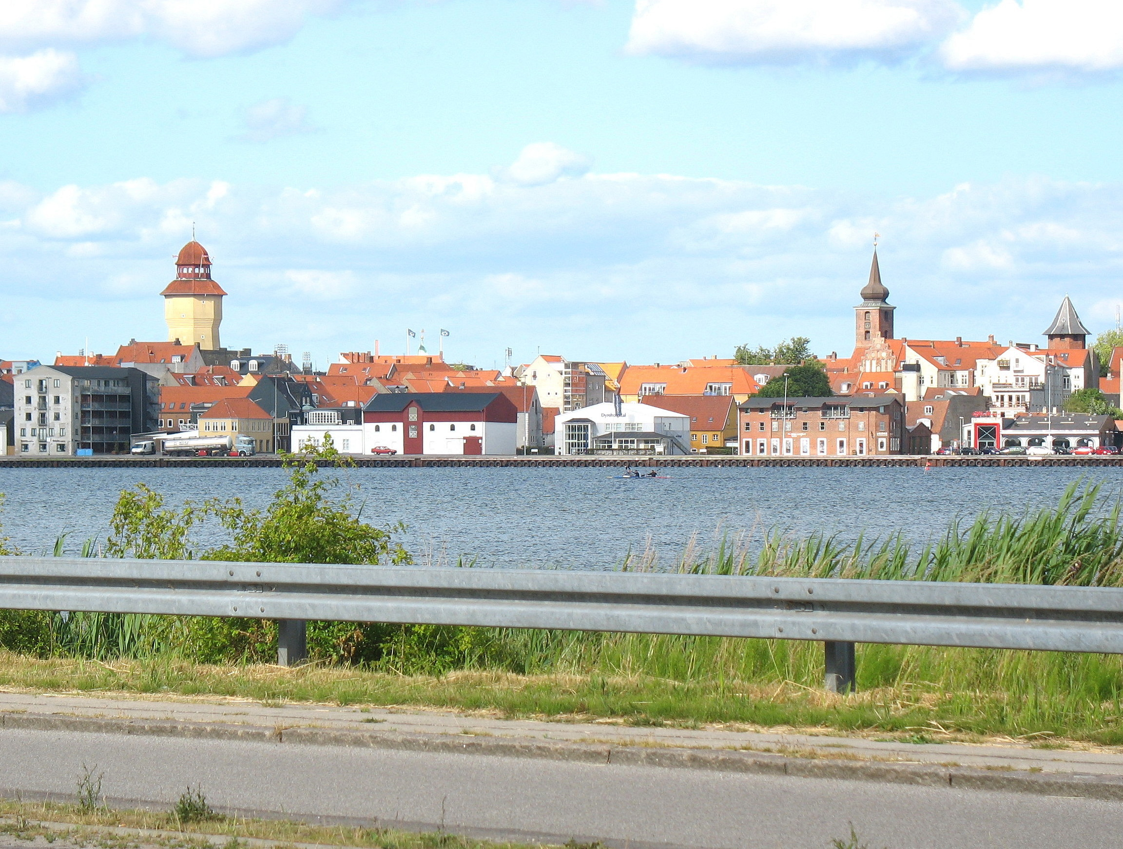 A view over the strait "Guldborgsund" towards the town "Nykøbing Falster". The town is located on the island Falster in east Denmark.